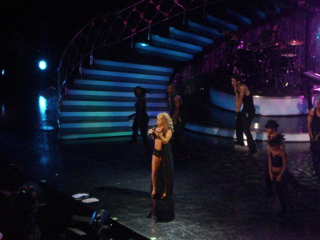 Mariah Carey performing in Tampa, Florida during The Adventures of Mimi Tour.